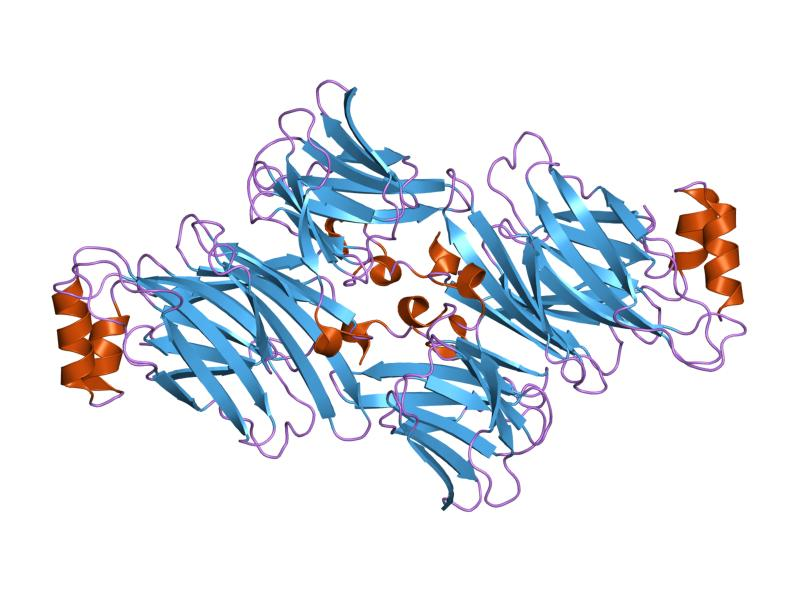 Cartoon representation of the molecular structure of protein registered with 1utc code.